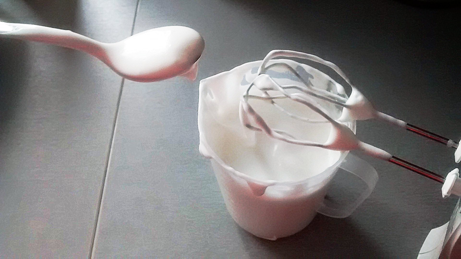 Aquafaba from a can of White Beans, whipped for a few minutes.